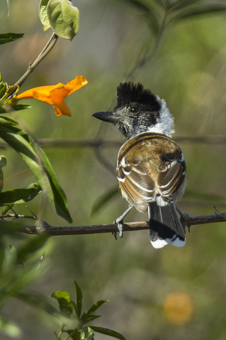 Collared antshrike (Thamnophilus bernardi) - South Ecuador_S4E9726